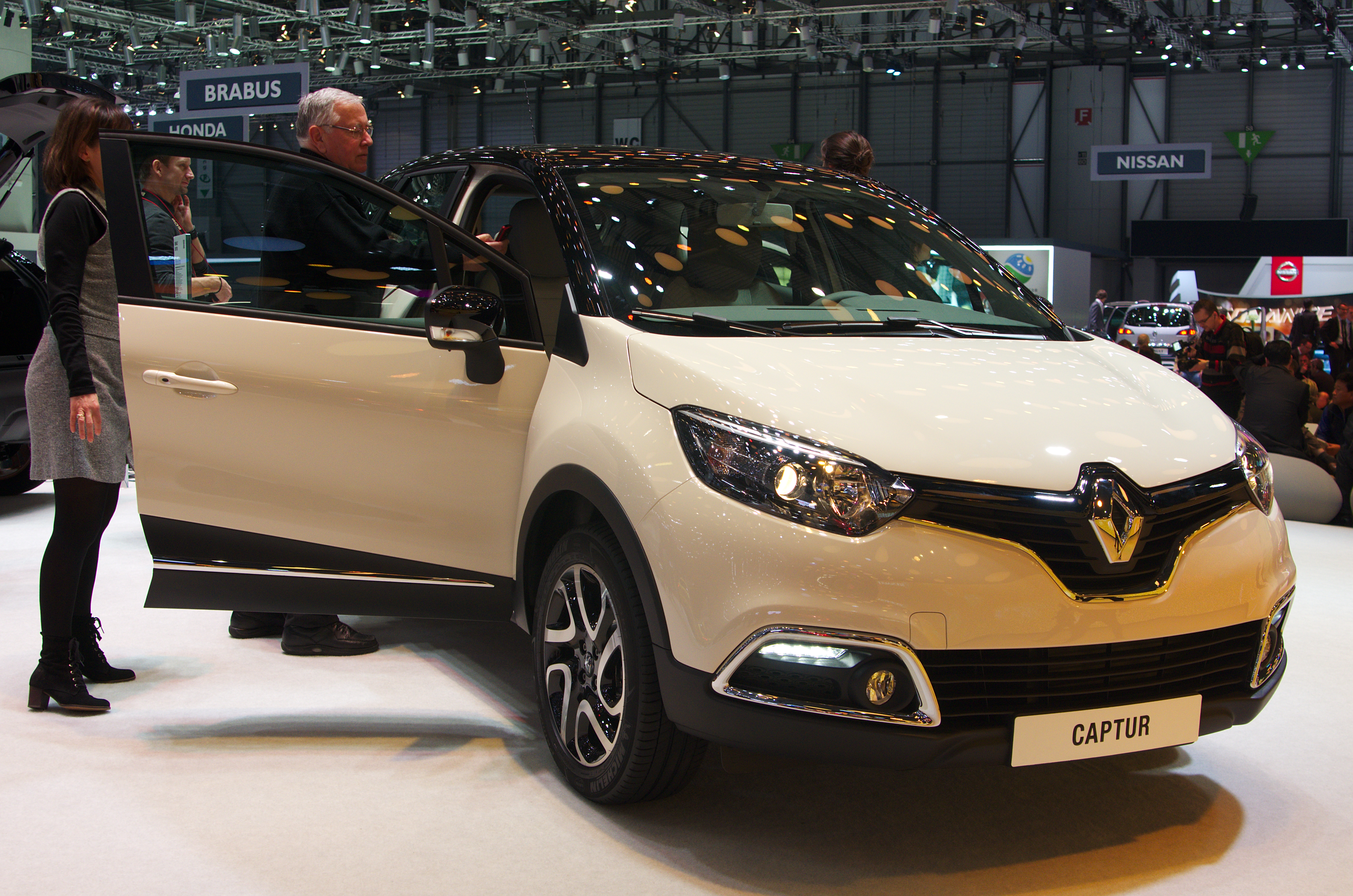 Geneva MotorShow 2013 - Renault Captur white with black roof